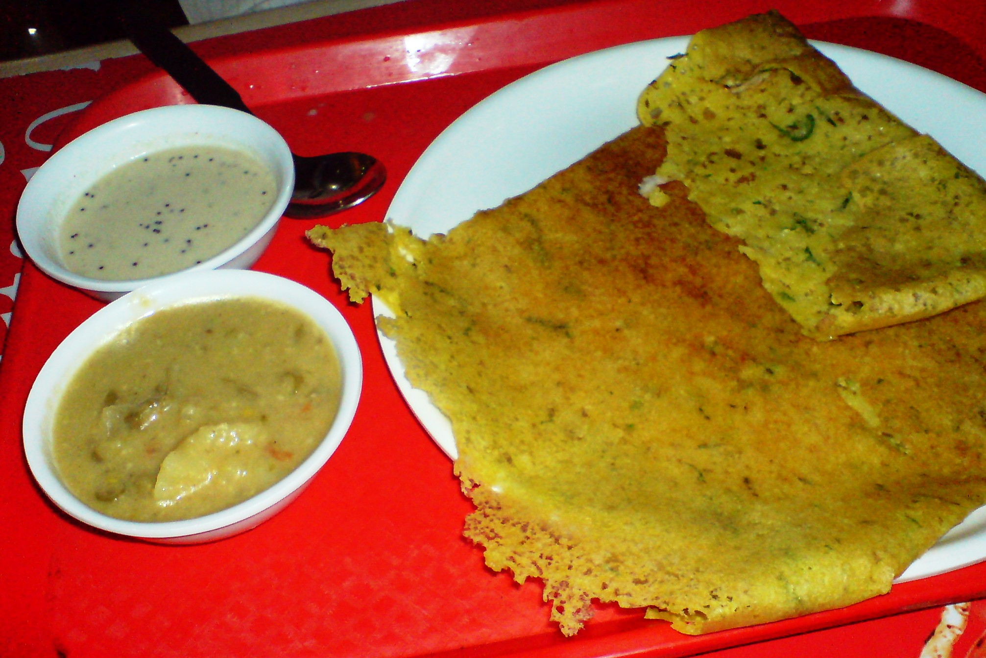 Pan-cake (dosa) made from of Semolina. Its very popular in South India.